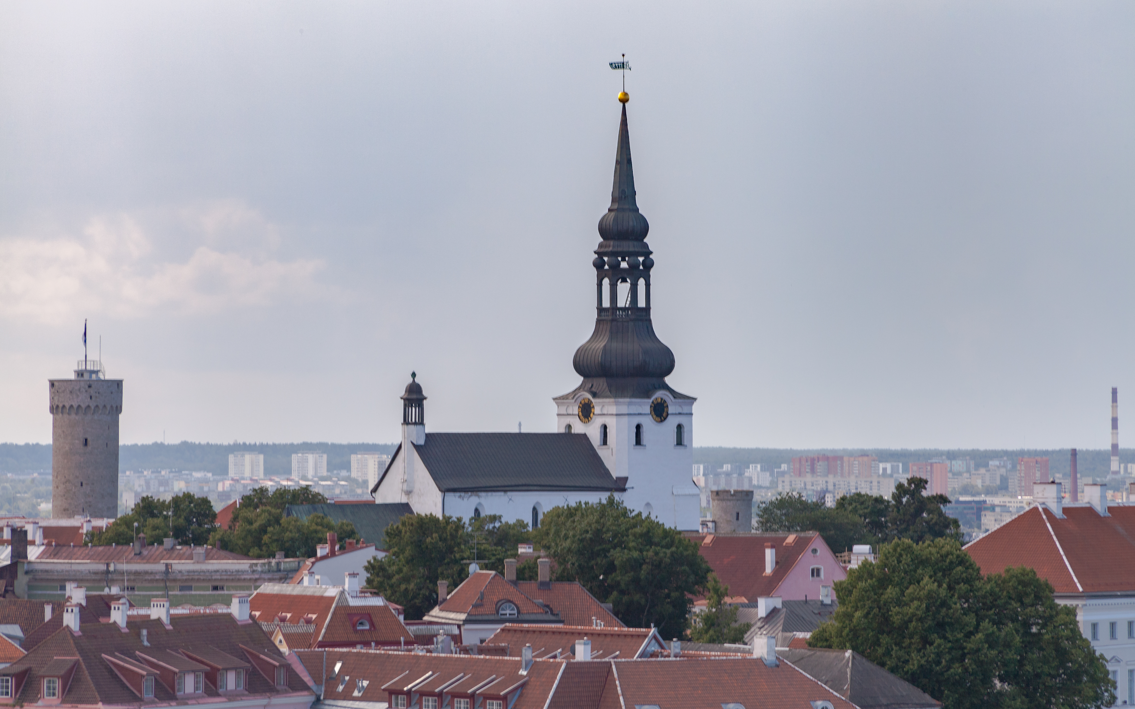 St. Nicholas' Church, view of Tallinn from St. Olaf's church, Estonia